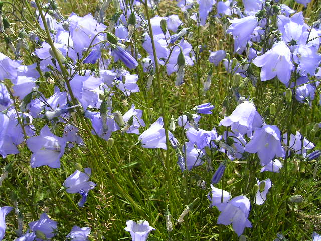 Harebell